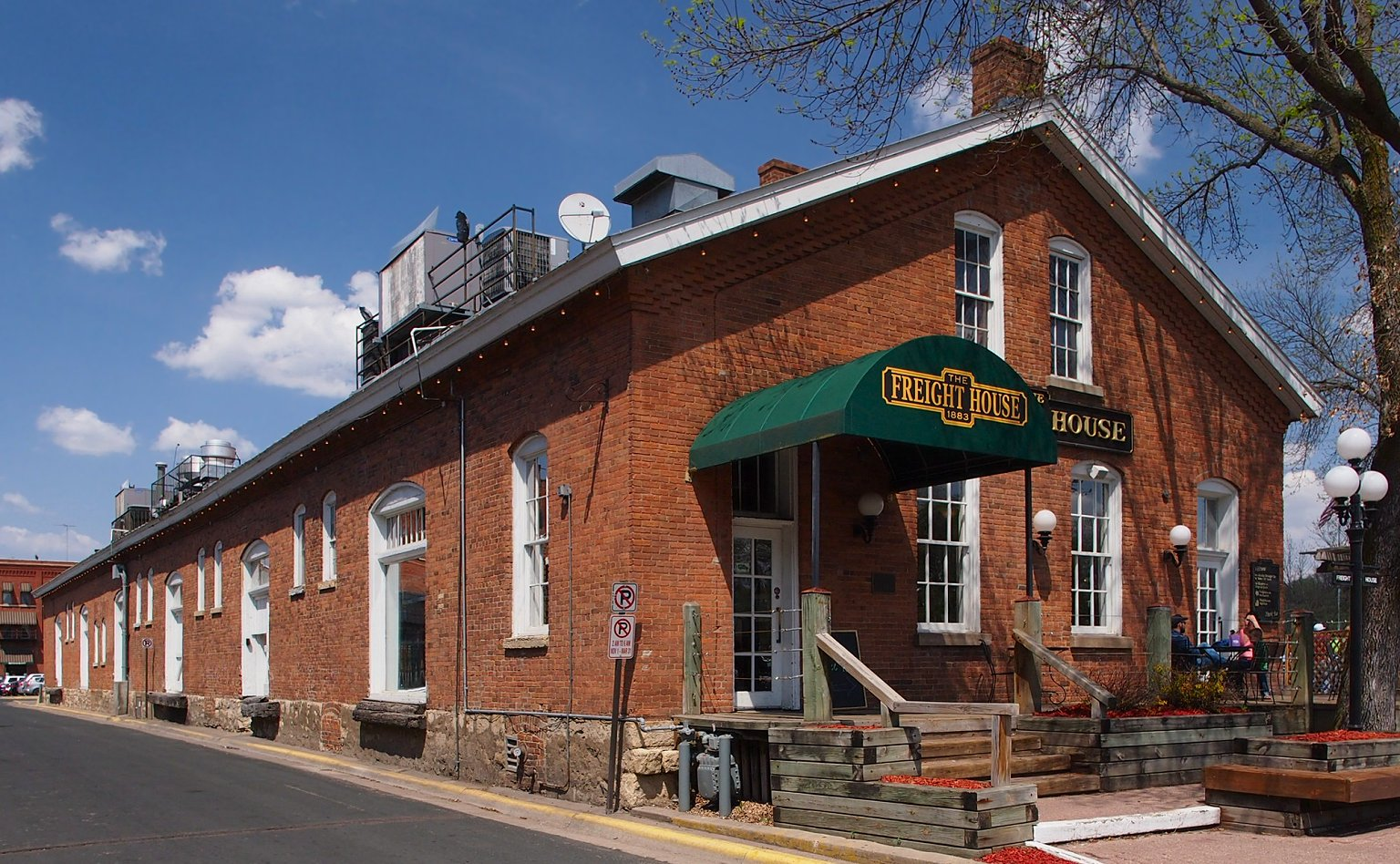 Chicago, Milwaukee, & St Paul Freight House (now the Freight House restaurant), 305 S Water St, Stillwater, Minnesota, USA. Viewed from the southwest.